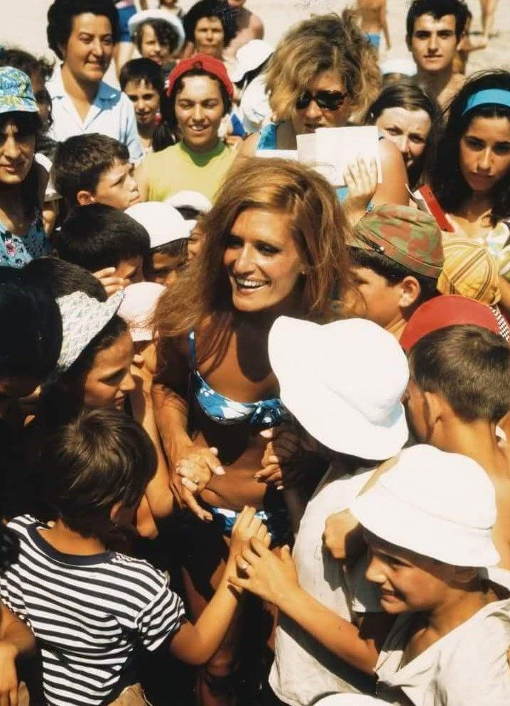 Dalida in crowd of excited fans on the beach of Senigallia, Italy, during a break of the laborious Cantagiro 1968 Tour in July 1968.